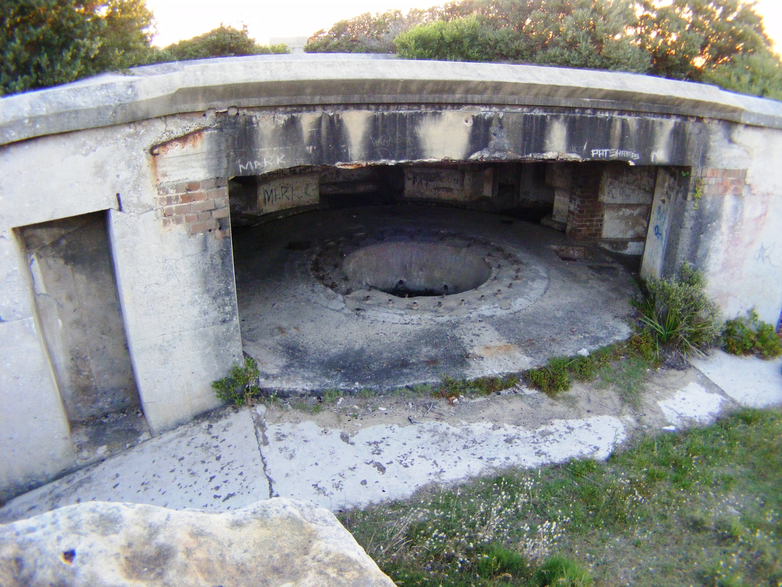 A World War Two bunker that I stumbled upon after hearing about it via word of mouth. It is located in La Peruse, New South Wales and would be quite difficult to find unless you had the rite co-ords.